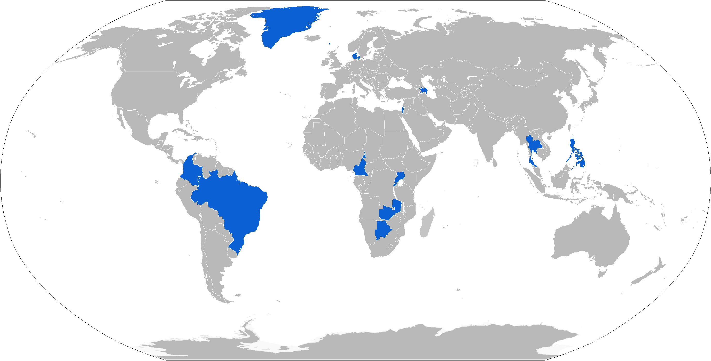 Map of ATMOS 2000 operators in blue